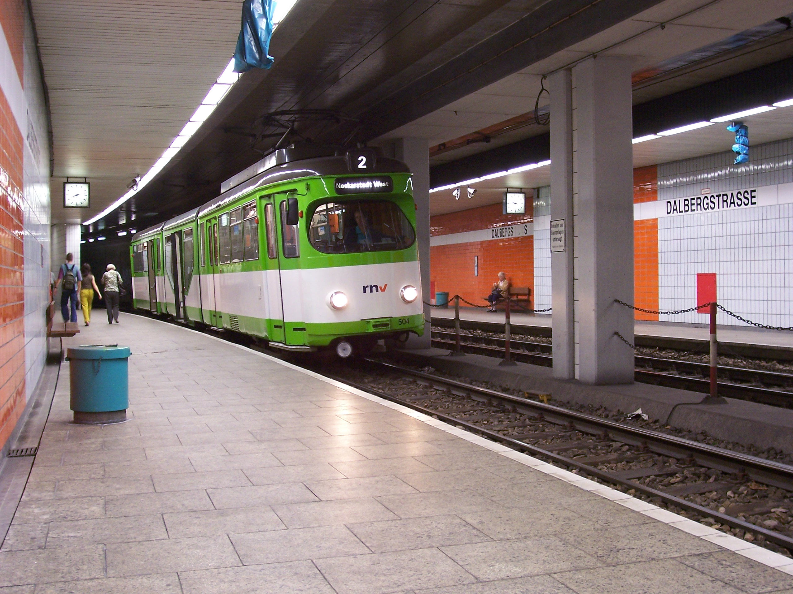 Tram station Dalbergstrasse in Mannheim, Germany my own photo from 02-sep-2005